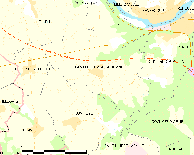 Map of French municipality La Villeneuve-en-Chevrie